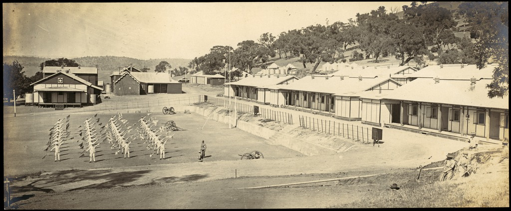 Boland, Frank H., d. 1955. Condition: Good, silvering around edges of image.; Part of the collection: Frank H. Boland collection.; Included in album within collection: "Old photos of Royal Military College, Duntroon."; Reference: Moore, Darren 2001, 'Duntroon : a history of the Royal Military College of Australia 1911-2001' RMC, Canberra, p. 21-25.; Title devised by cataloguer from image content and reference source. Persistent URL .au/nla.pic-an23763312